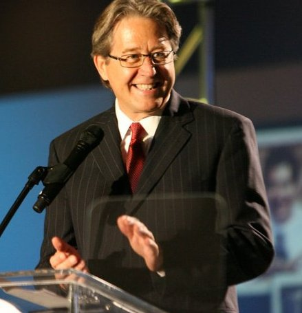 This is an photo of Randy Barth, founder and CEO of THINK Together, addressing a crowd of supporters at the 2012 THINK Together gala.